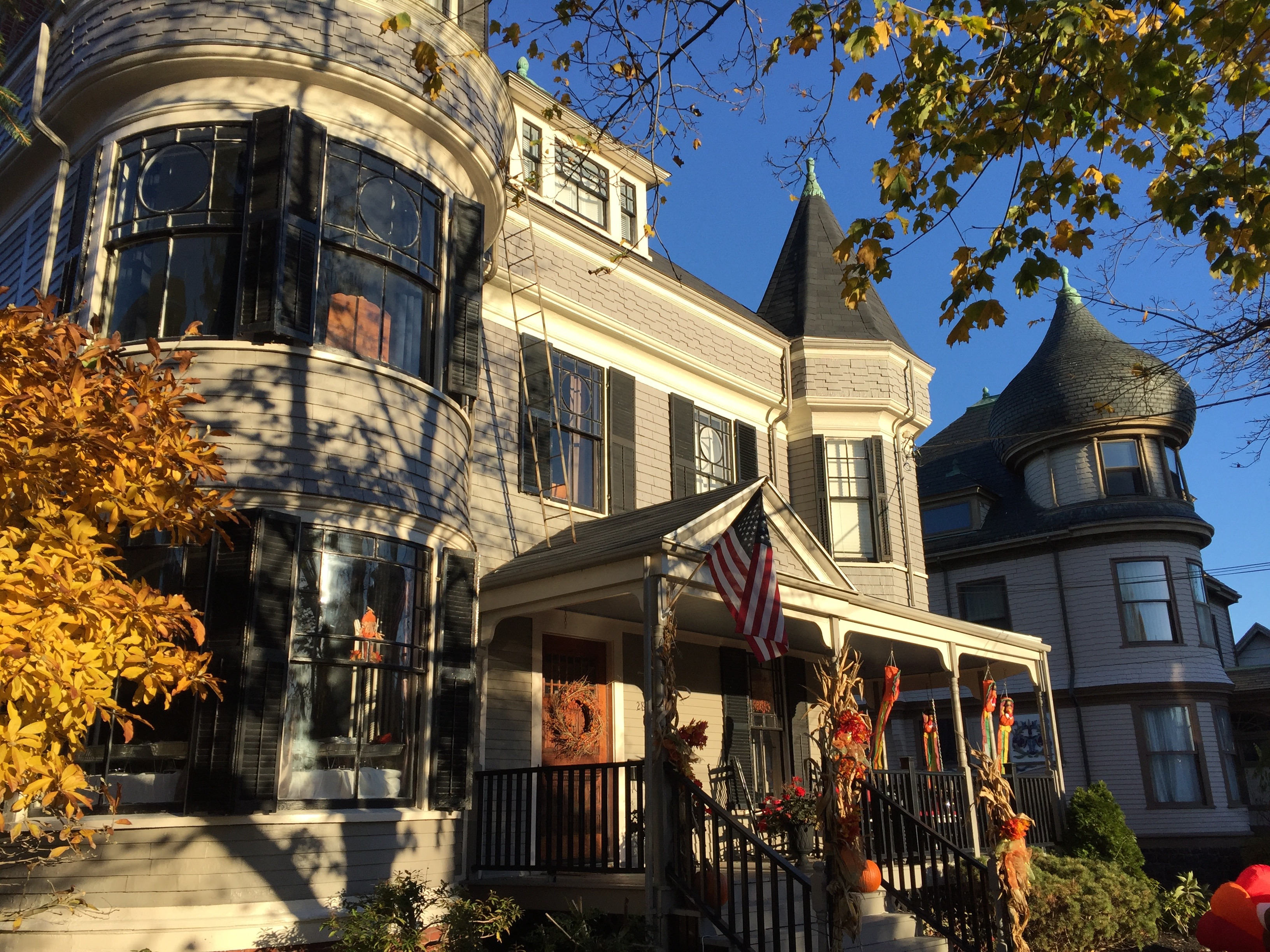 Easterly view of Atlantic Street, Diamond Historic District, Lynn, MA